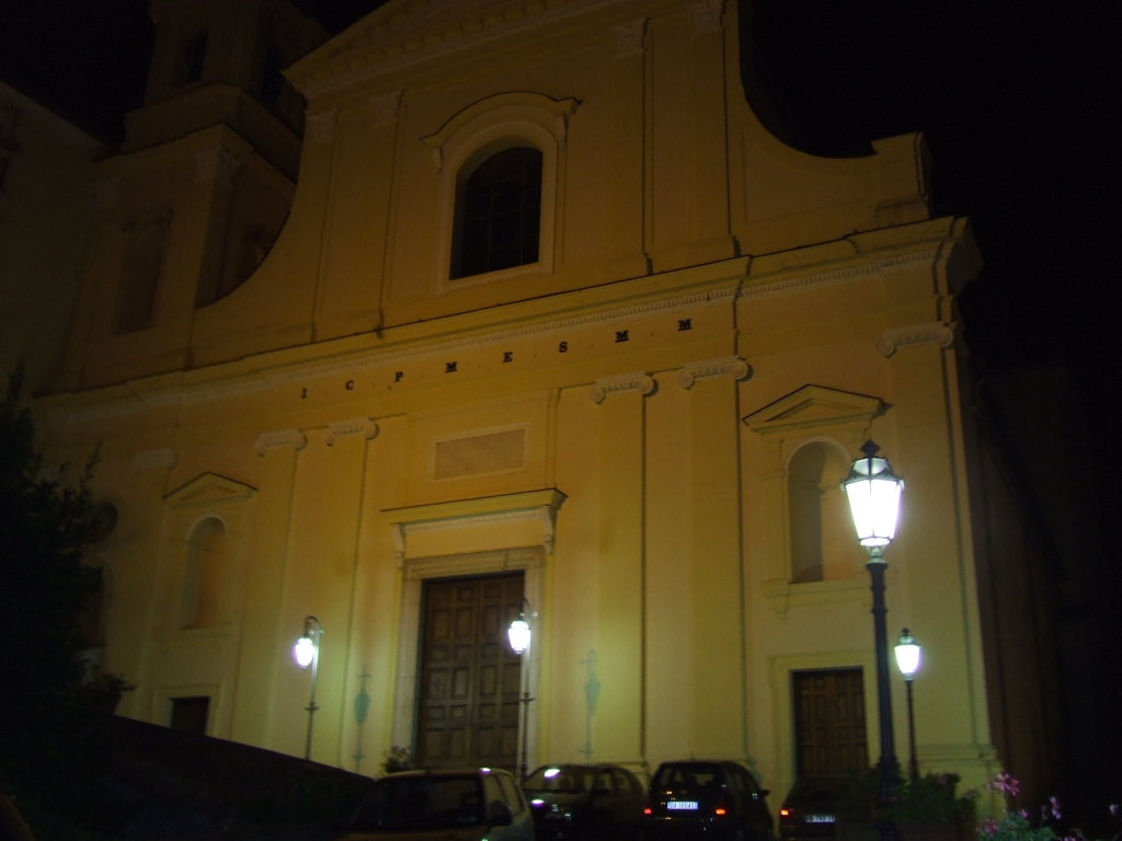 Church in Piedimonte Matese, Province of Caserta, Italy (Basilica Maggiore)